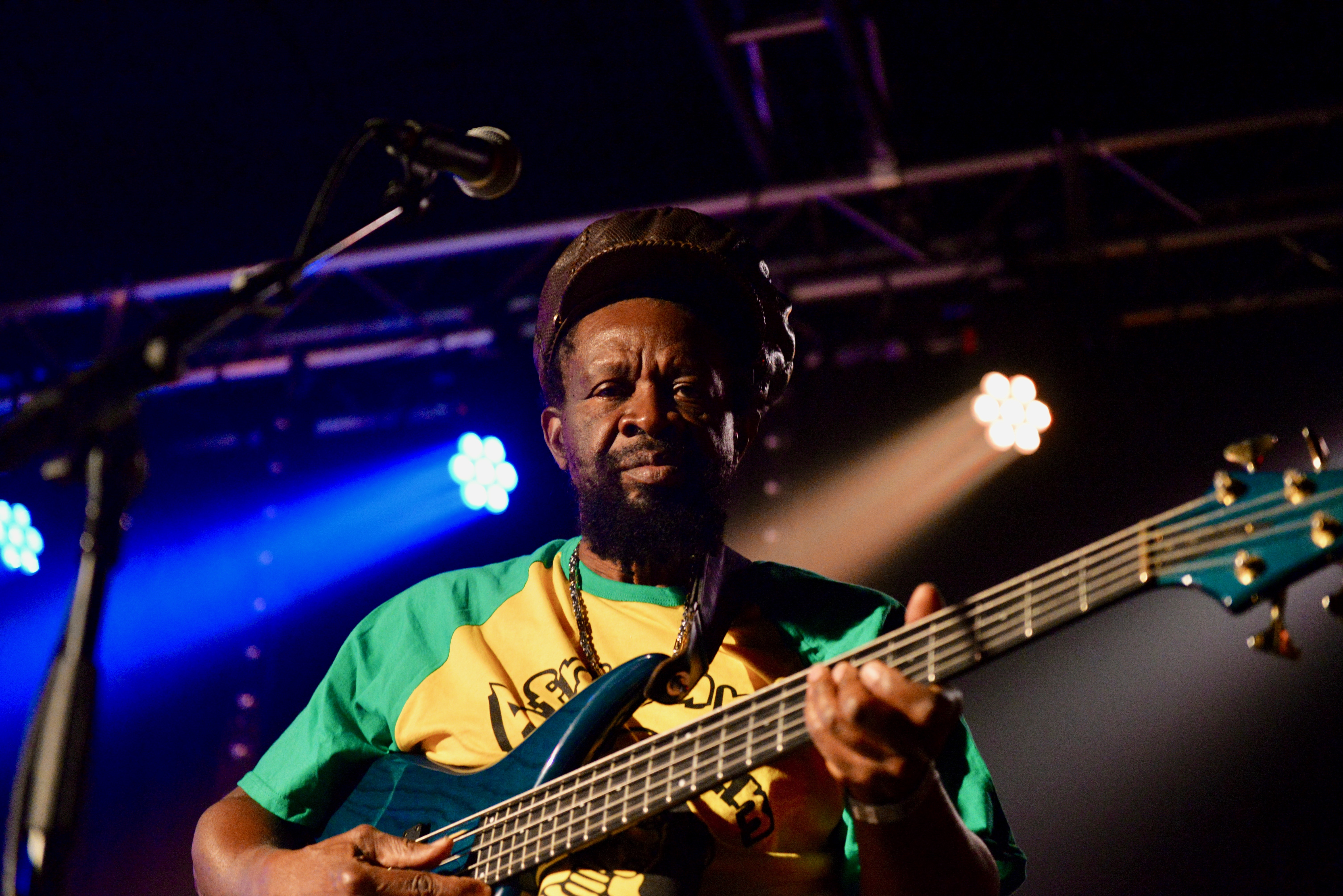 Errol 'Flabba' Holt in concert in Antwerp June 16 2018